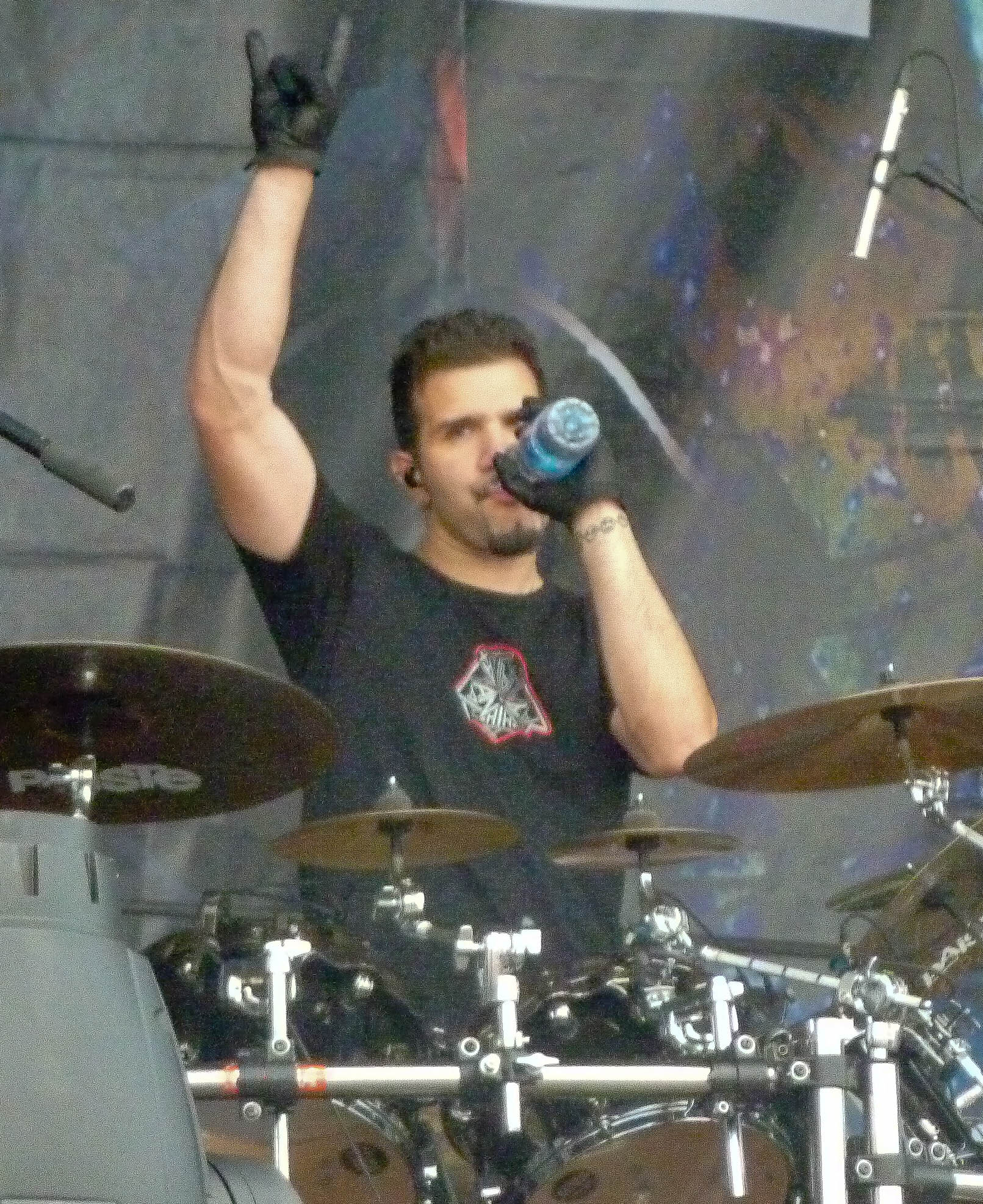 Charlie Benante, drummer of Anthrax, playing live.